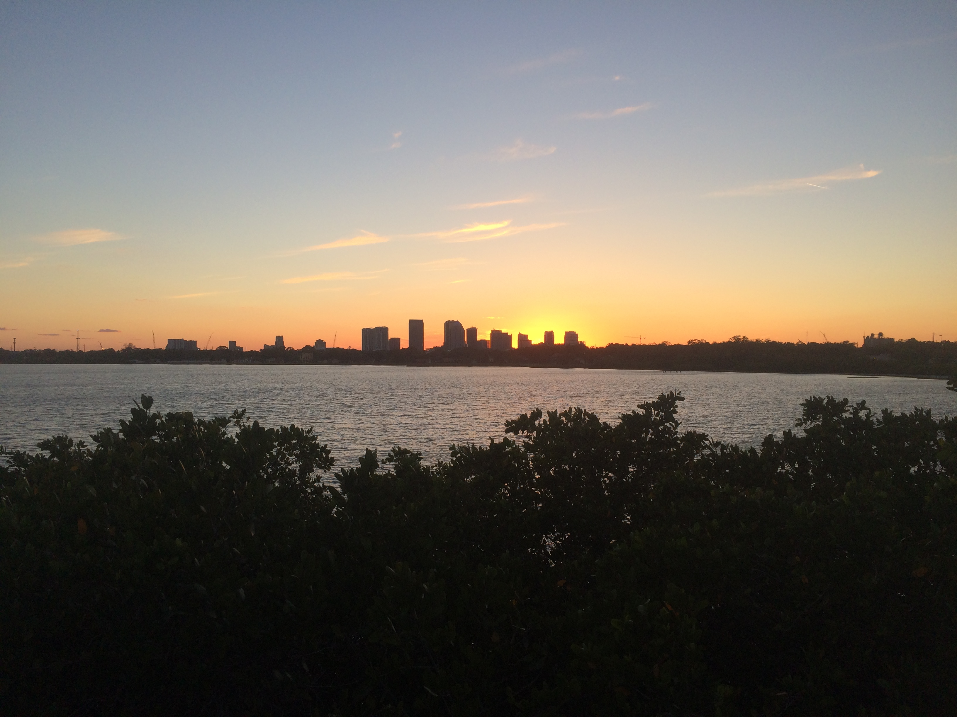 Viewing Tampa, Florida at dusk from the McKay Bay Greenway and Nature Trail